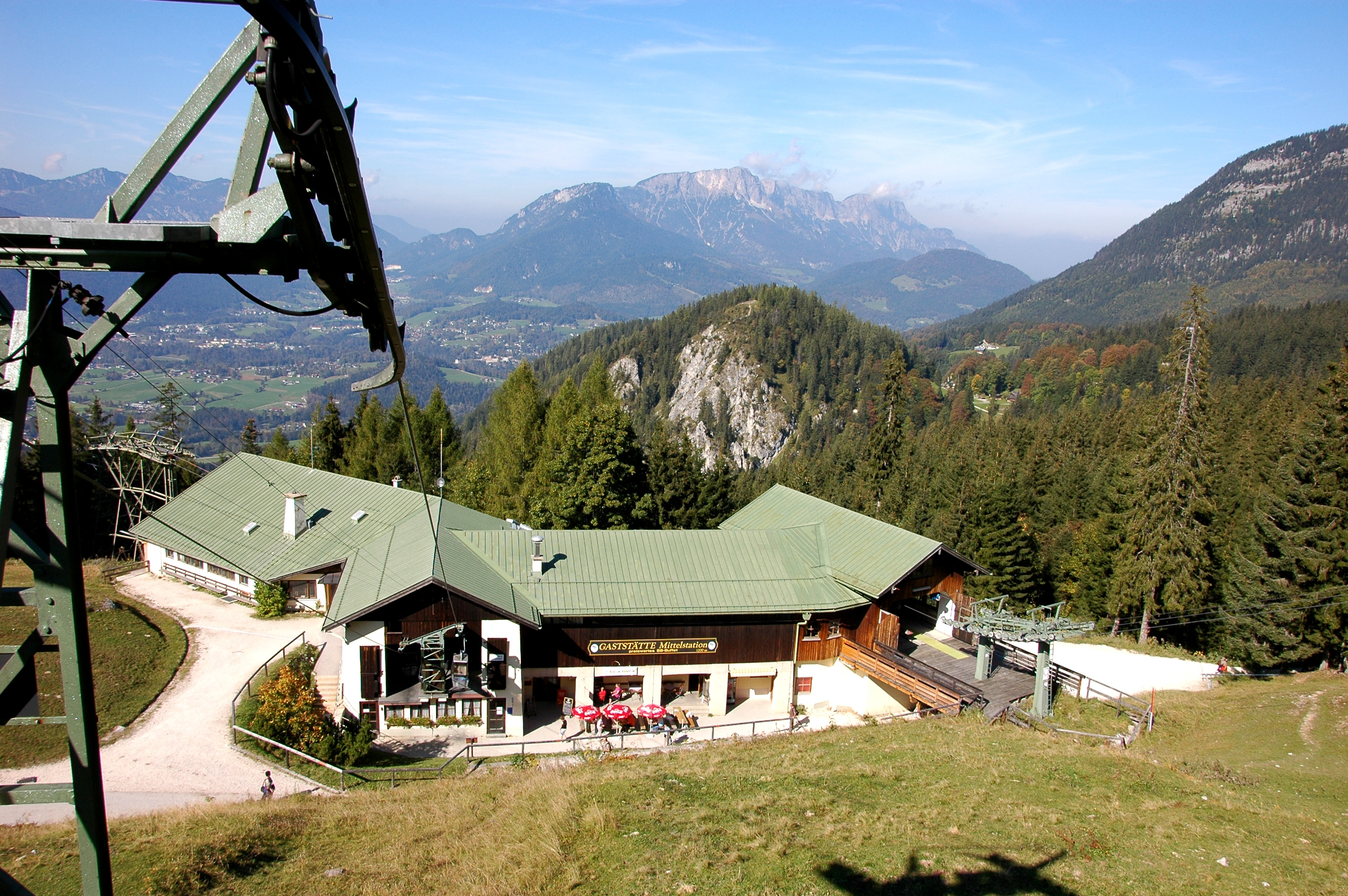 The intermediate station of the Jenner cableway